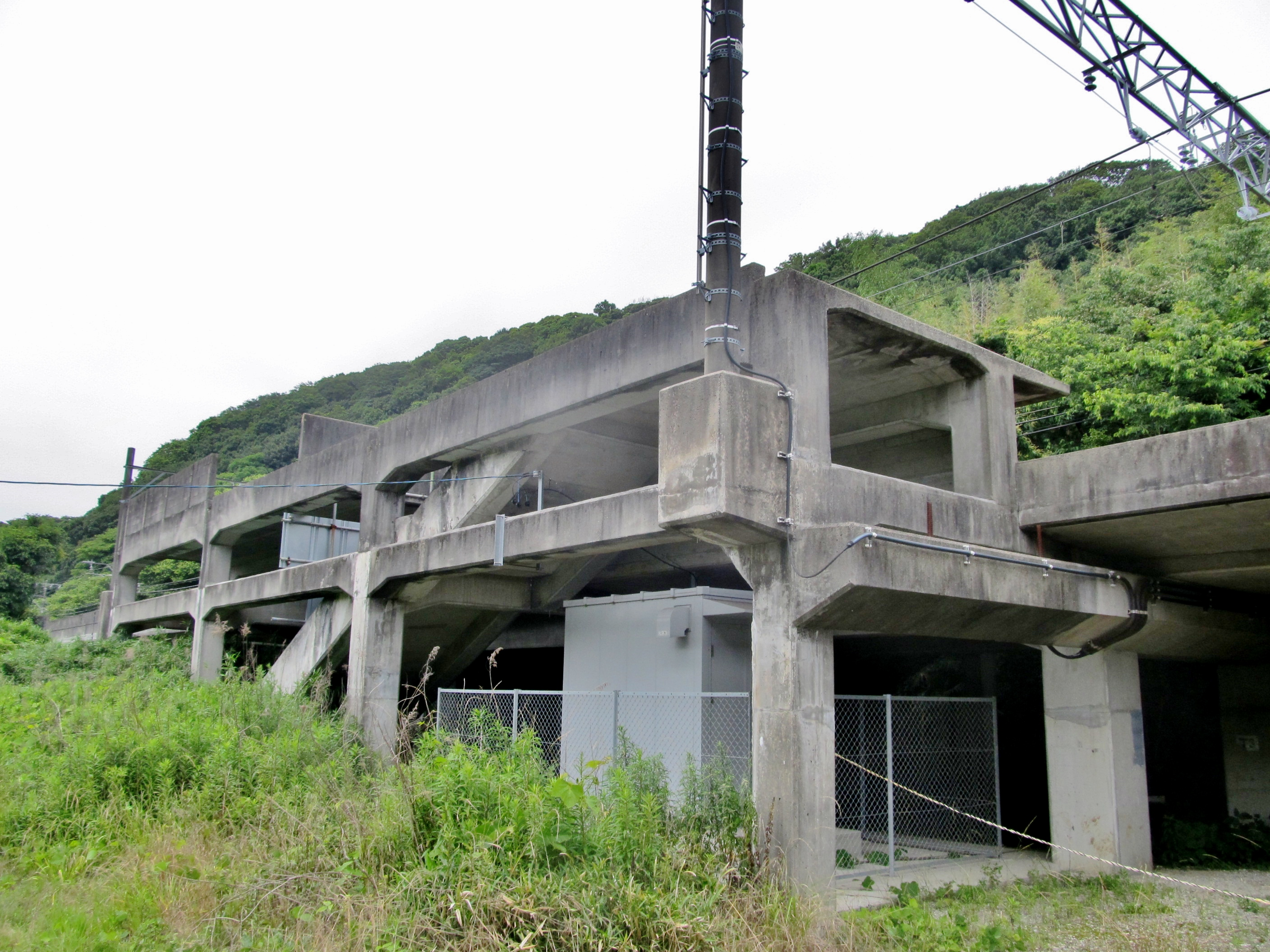 Nagoya Railroad Chita Line Onoura Planned station site